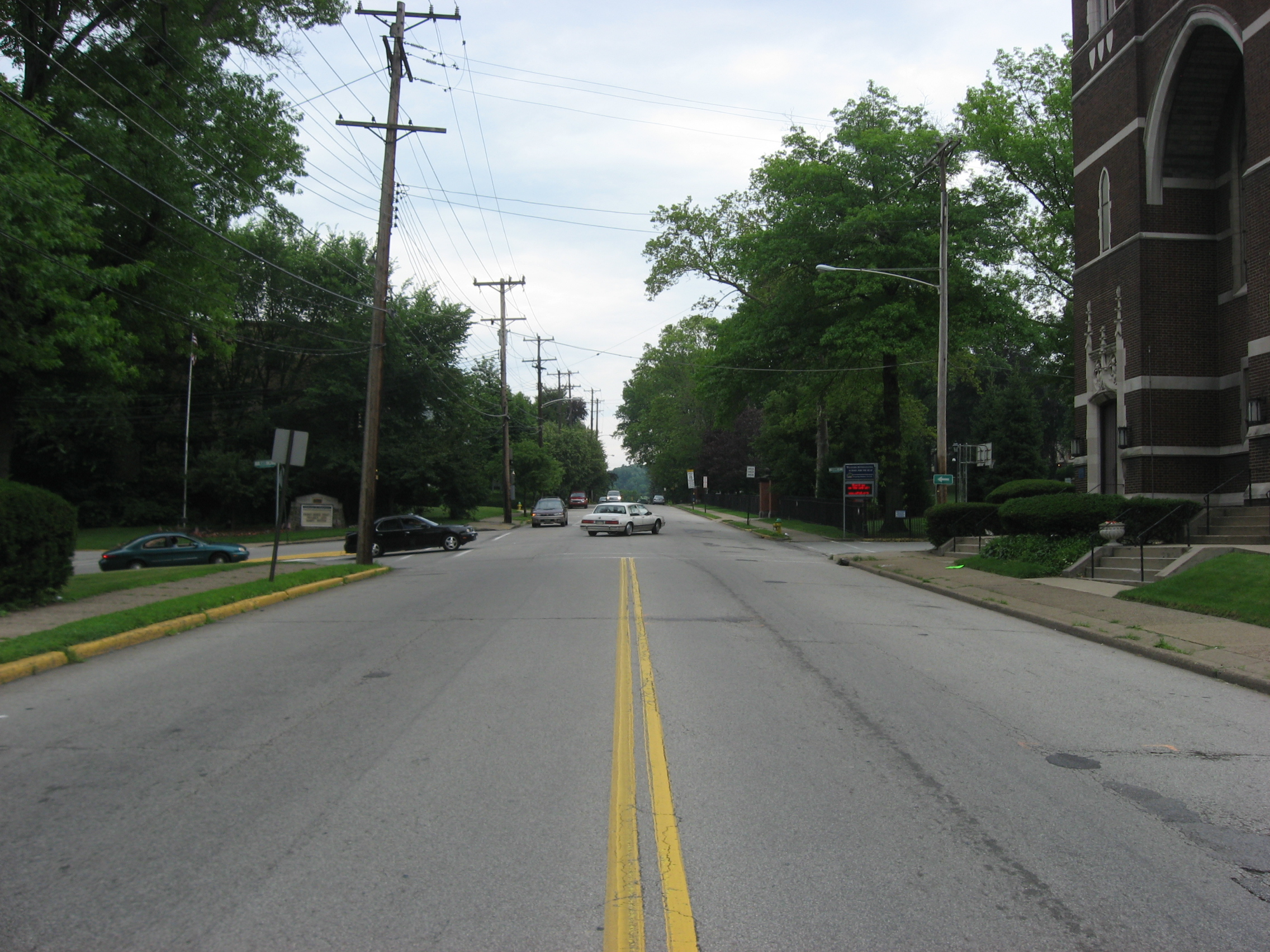 View along northbound Swissvale Avenue (the Green Belt) in the borough of Edgewood, an eastside suburb of Pittsburgh, Pennsylvania, United States. The church to the right is Edgewood Presbyterian Church (a Pittsburgh History and Landmarks Foundation site), and the Edgewood borough building is just off the left edge of the picture. Intersection is Swissvale and Race/School.